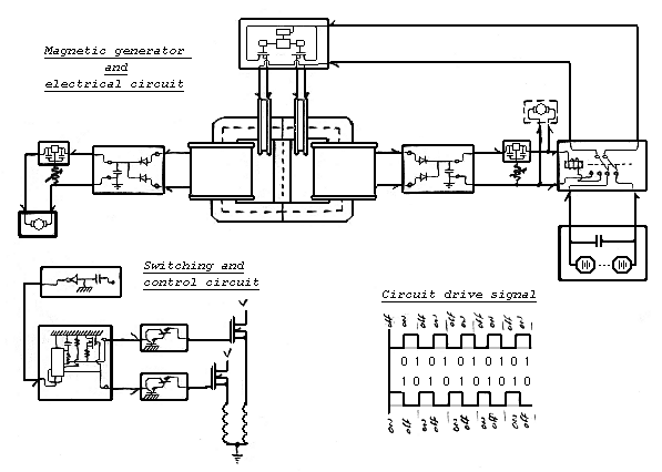 Motionless Electrical Generator and electrical circuit. Drawn from the specification of States patent 6362718.